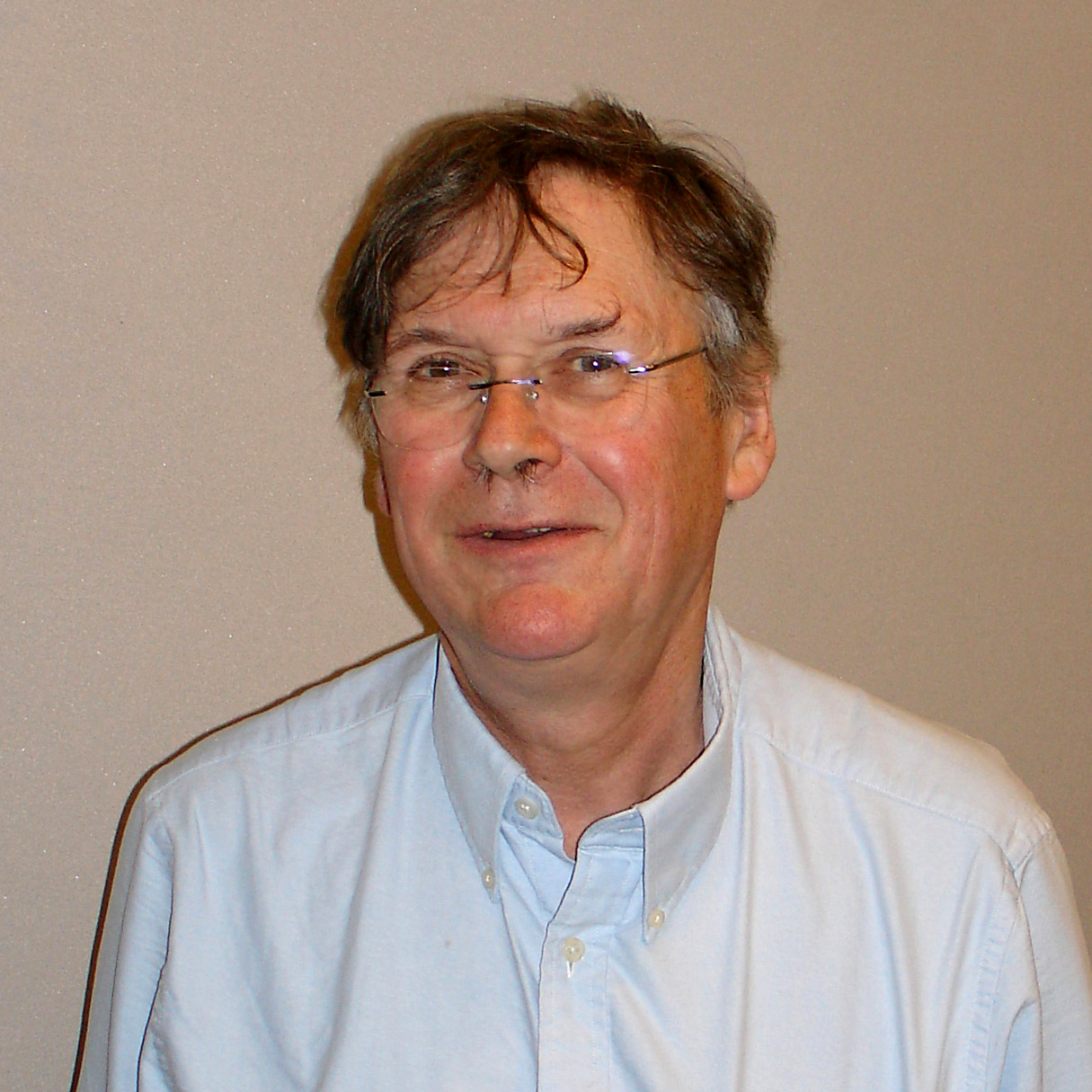 Tim Hunt after seminar at UCSF, 05/2009